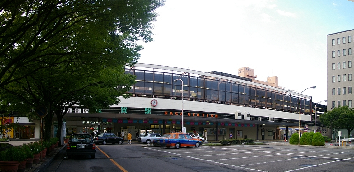 Photograph of North entrance of Saga Station, Saga city, Saga prefecture, Japan